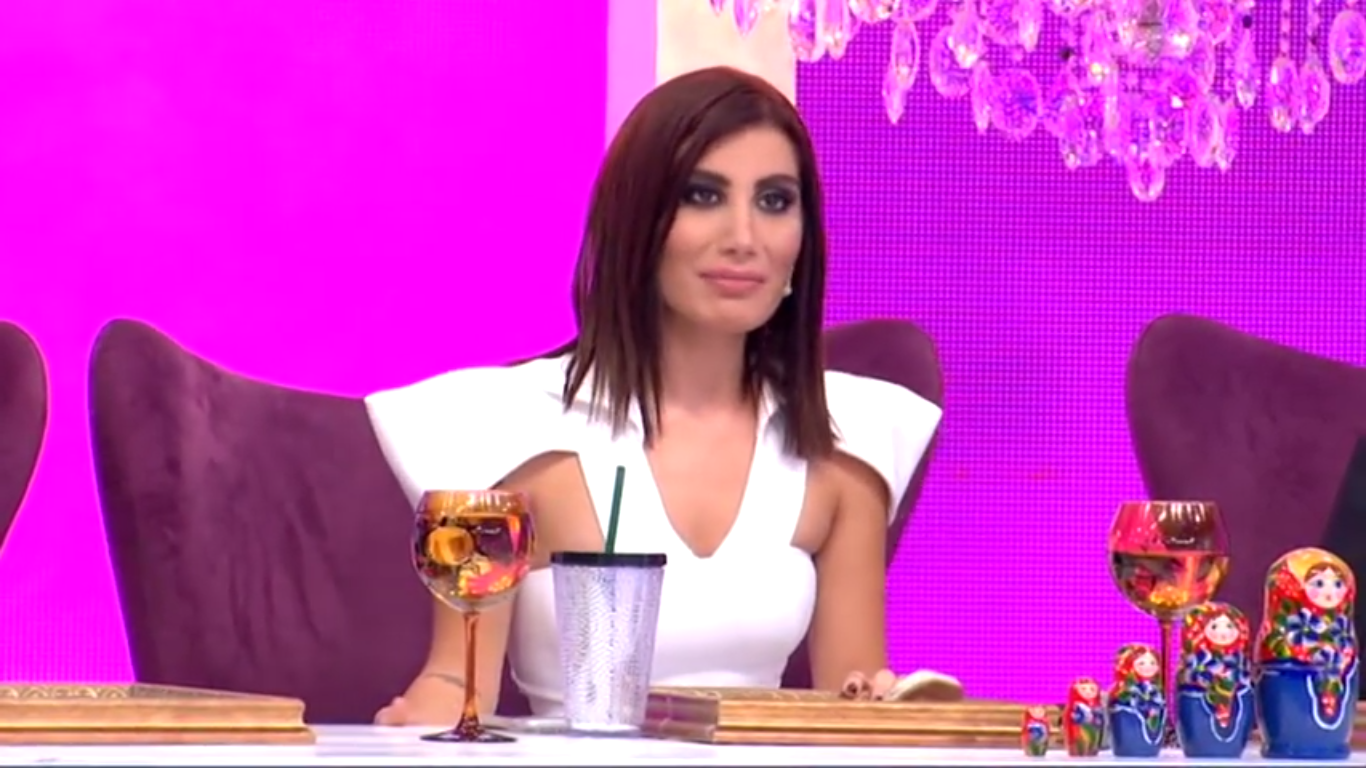 Turkish singer İrem Derici during a TV-show called İşte Benim Stilim.